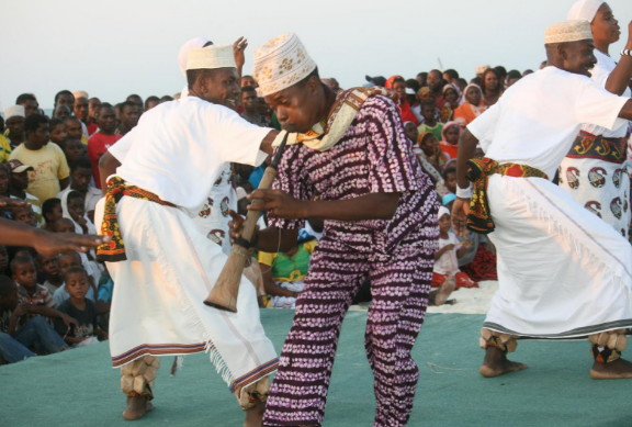 Pemba Traditional dance(Msewe) This is an image from Tanzania